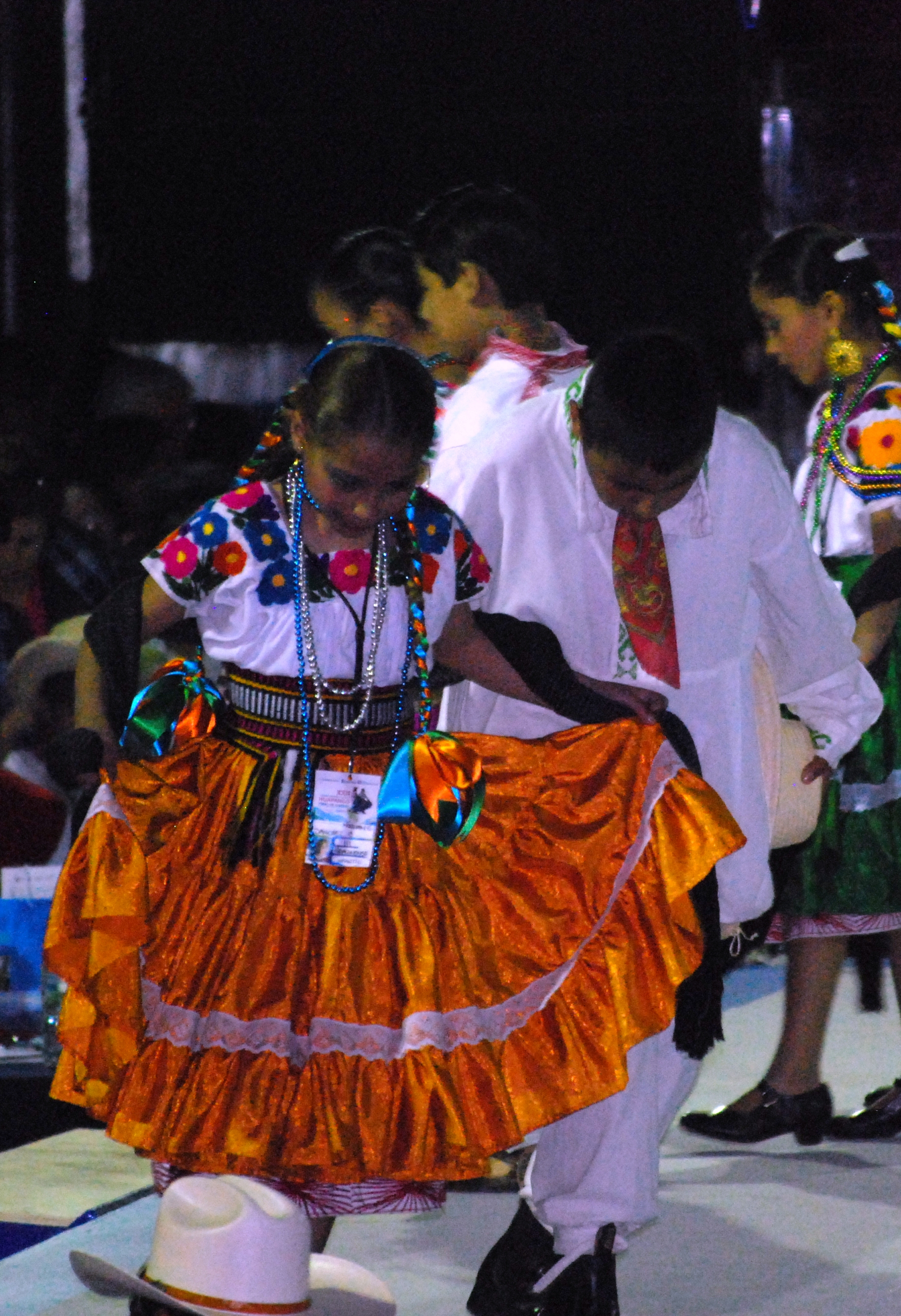 Dancers at the 2011 Concurso National de Baile Huapango in Pinal de Amoles, Querétaro, Mexico